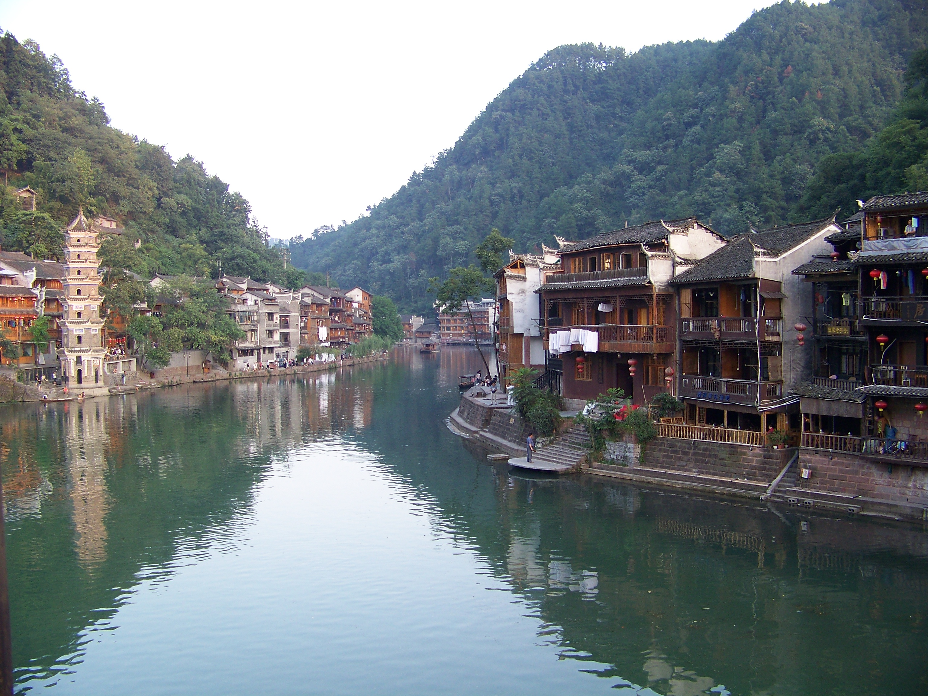 Tuojiang River by passing the Fenghuang county old town, looking from Dong Guang Men westwards.